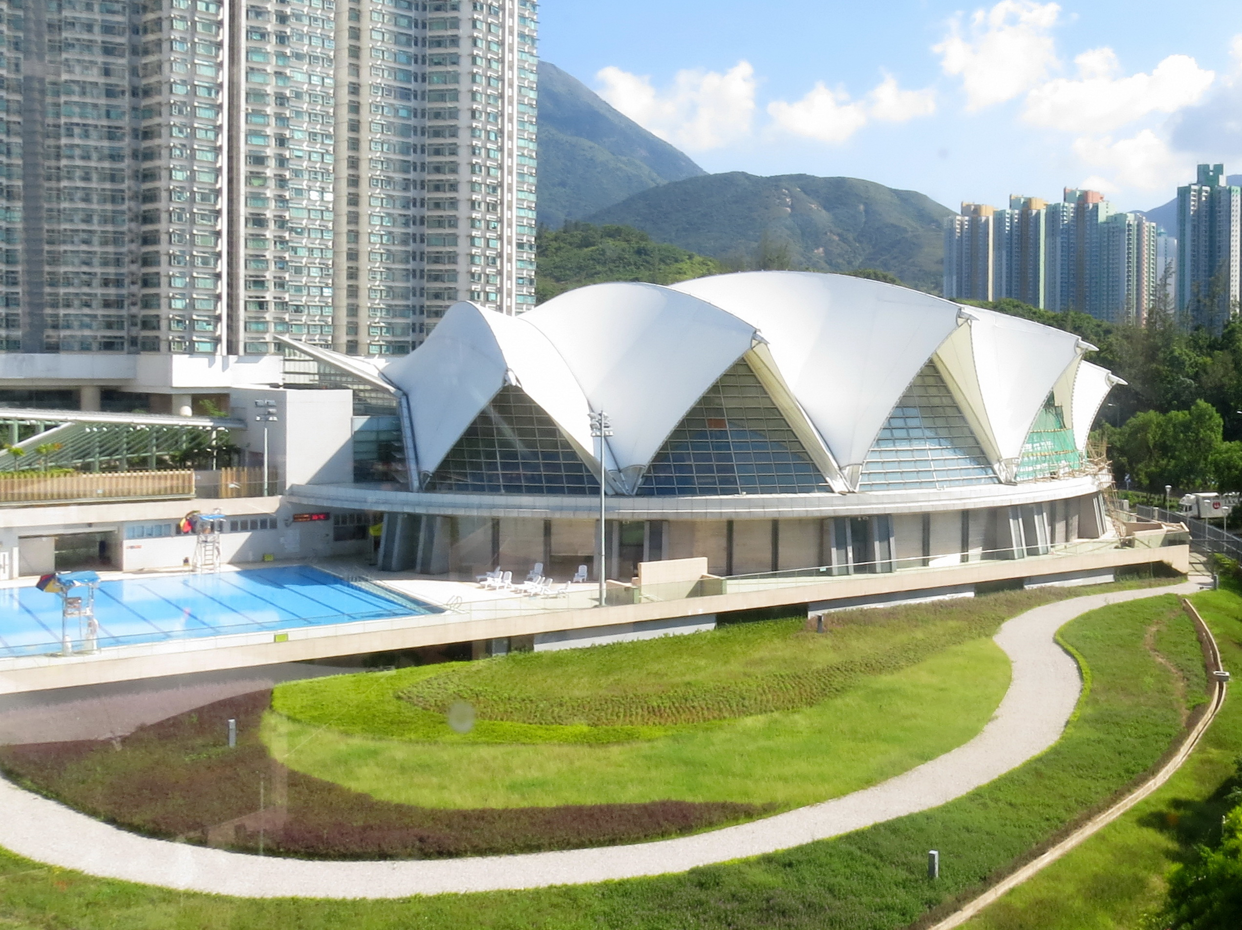 Hong Kong Tung Chung Swimming Pool Complex.